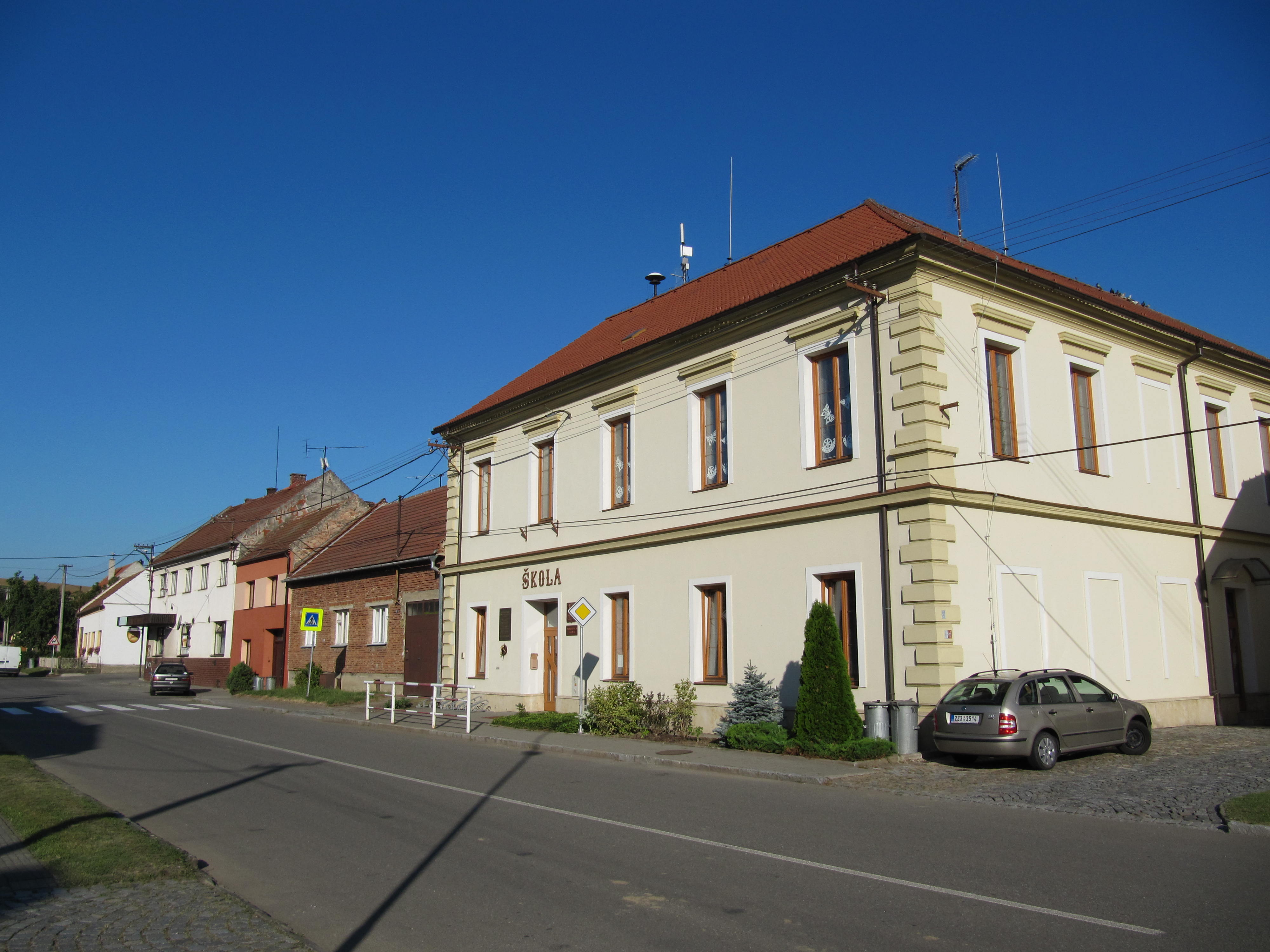 Veletiny in Uherské Hradiště District, Czech Republic. Kindergarden.